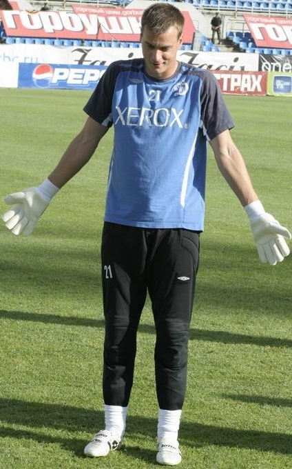 Žydrūnas Karčemarskas as a player of FC Dynamo Moscow